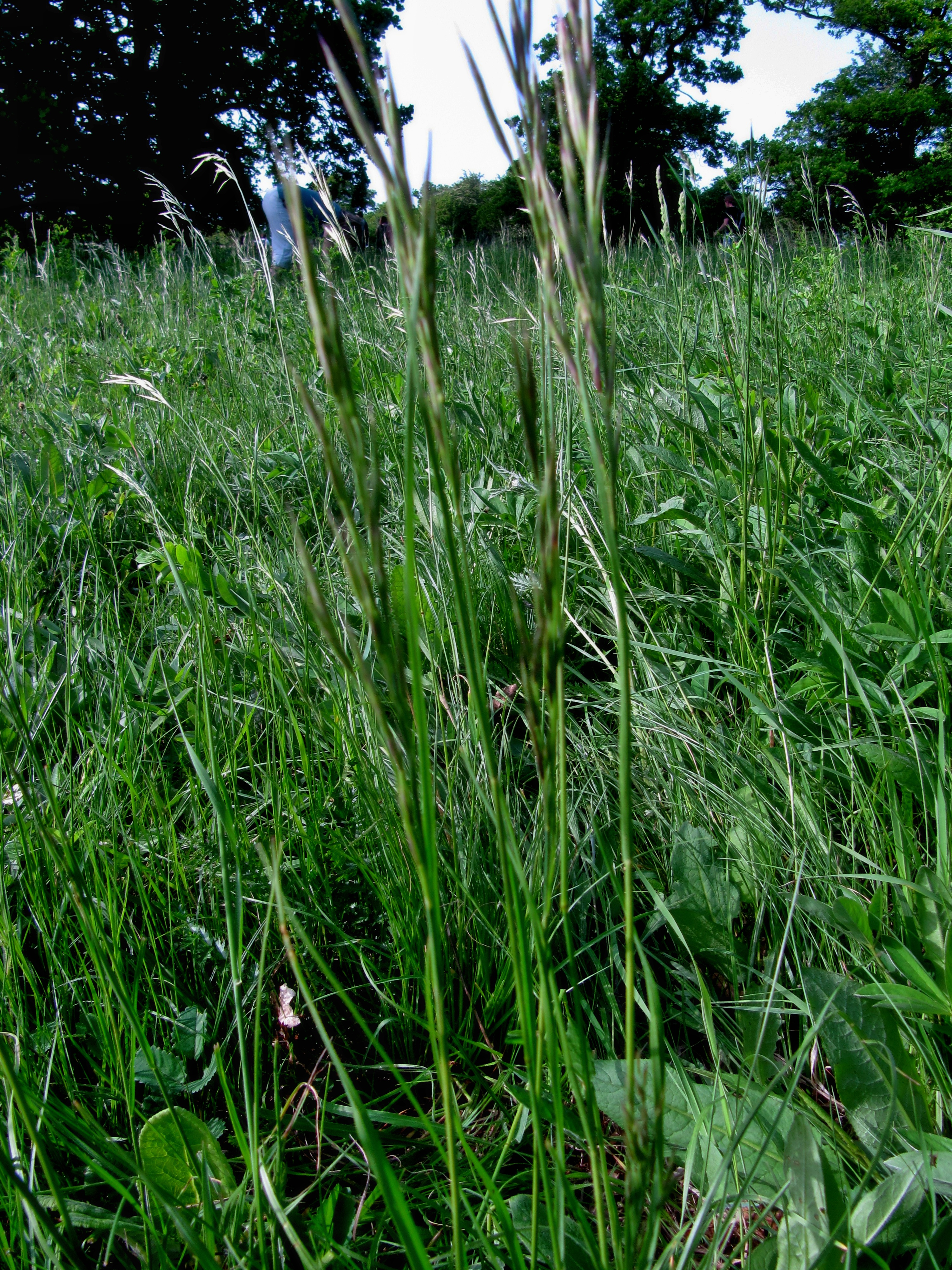 National nature reserve Čertoryje, Czech Republic.